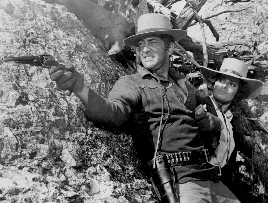 Photo of Dean Martin and Raquel Welch from the 1968 film Bandolero!.